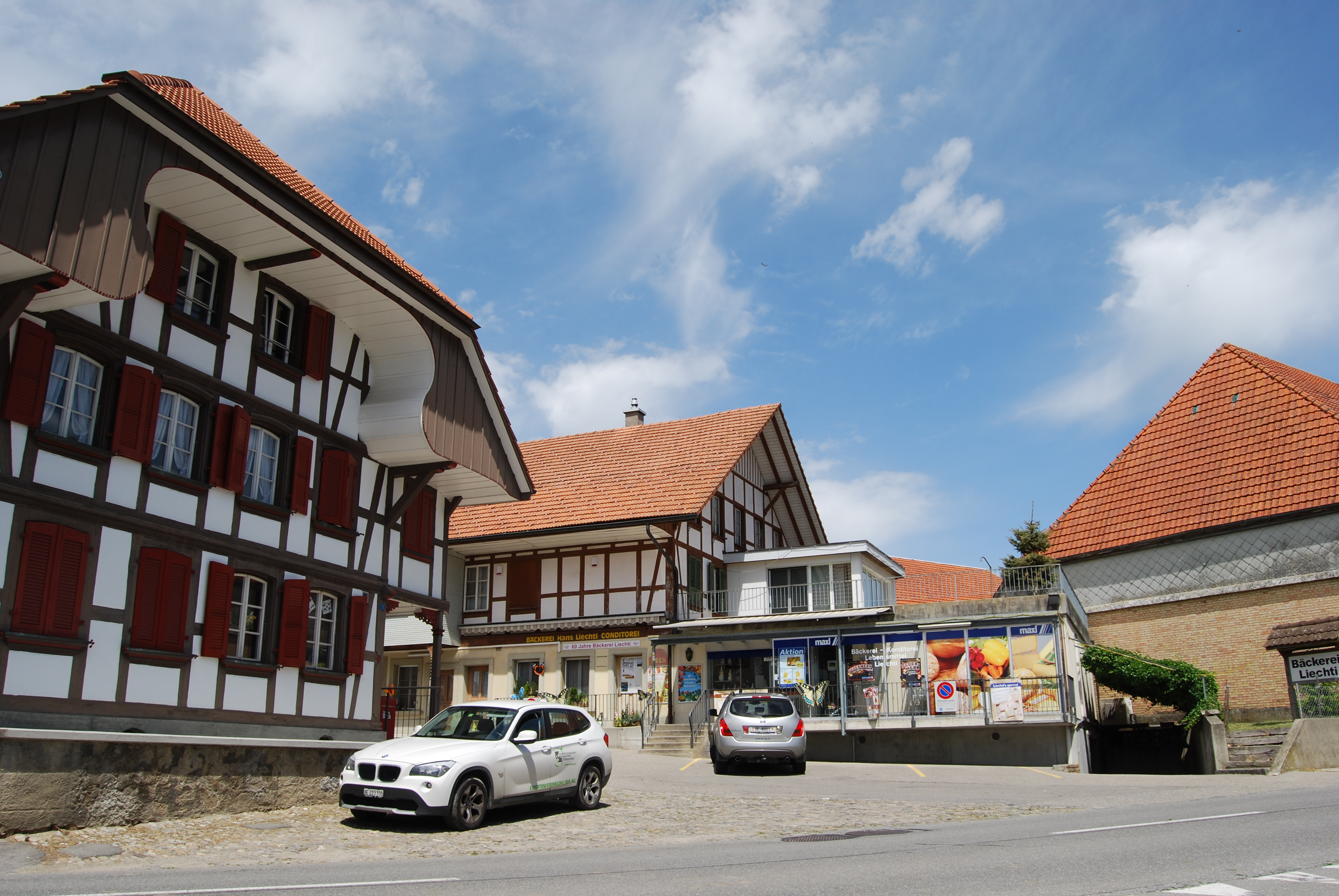 Frieswil, municipality of Seedorf, canton of Bern, Switzerland